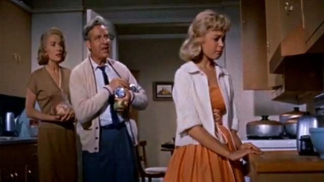 L. to R. : Mary LaRoche, Arthur O'Connell & Sandra Dee in Gidget - trailer (cropped screenshot)